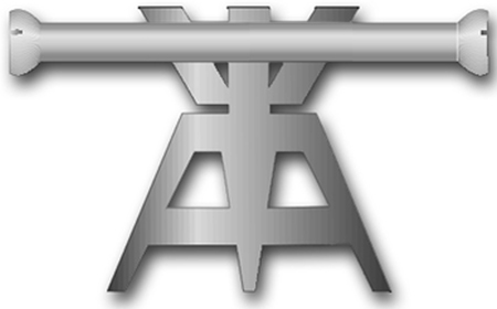 US Navy Fire Control Technician (FT). A range finder.